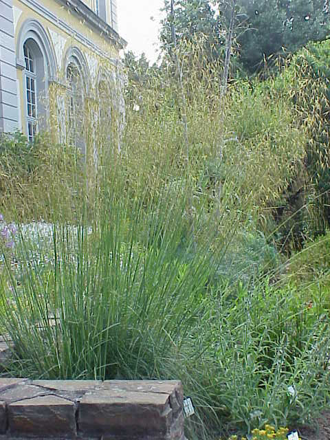 Species: Stipa gigantea Family: Poaceae Image No. 3